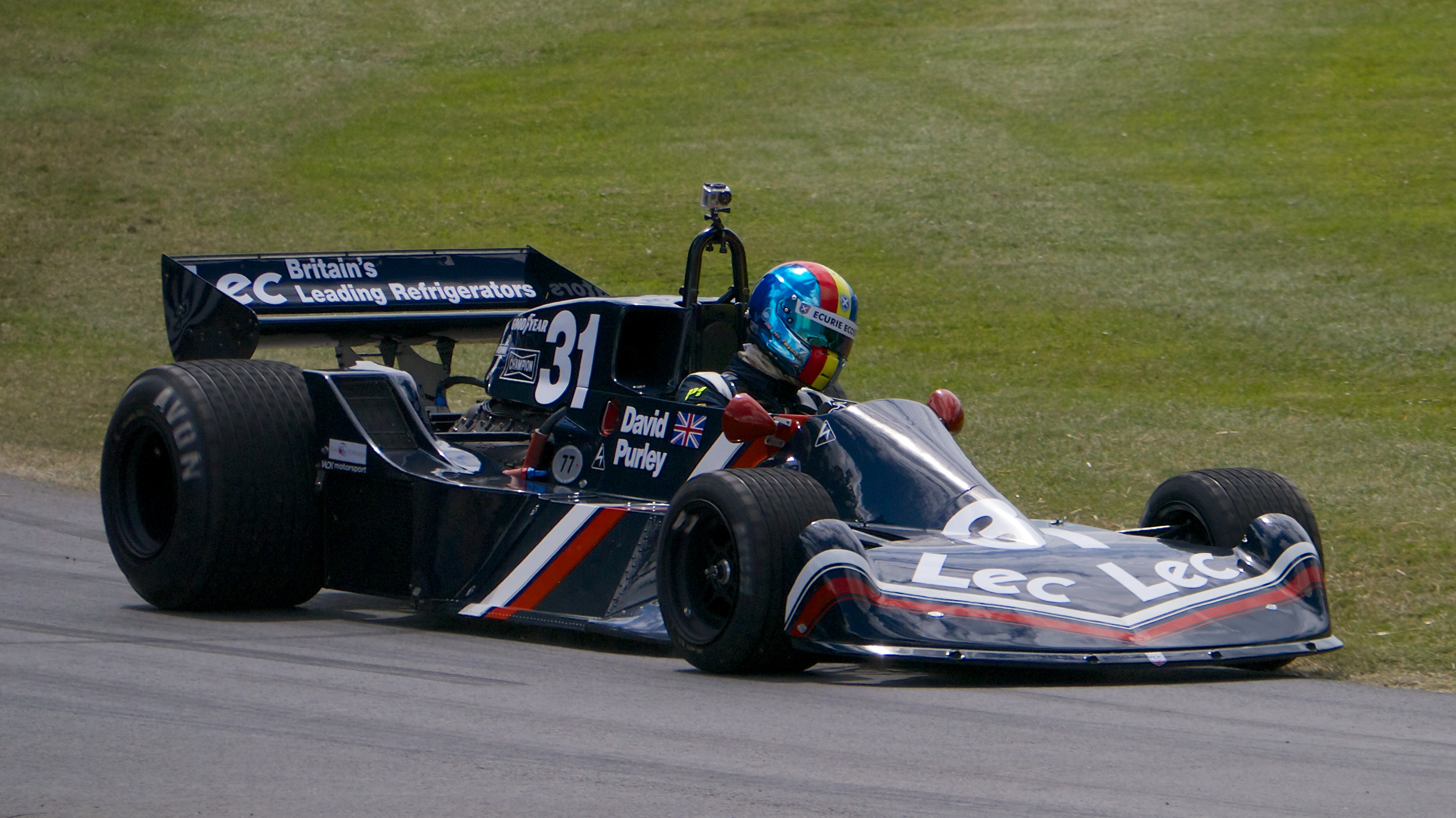 The LEC Cosworth CRP1 F1 car at the 2014 Goodwood Festival of Speed.